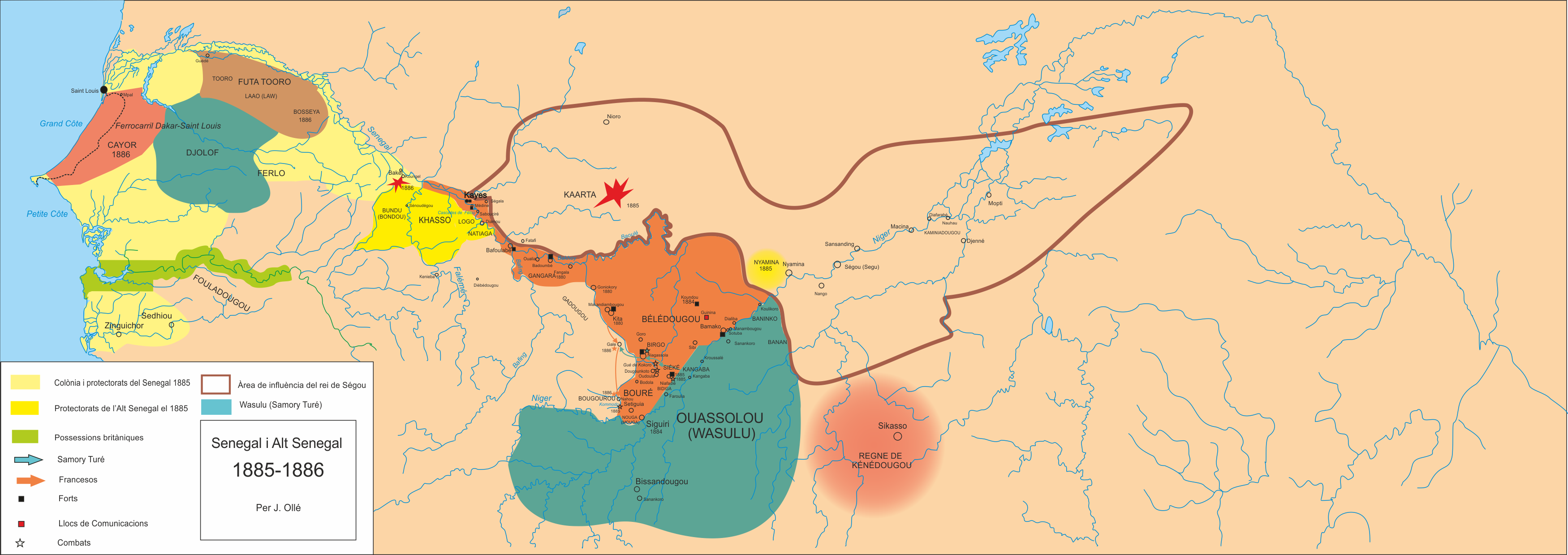 Senegal-Mali 1885-1886